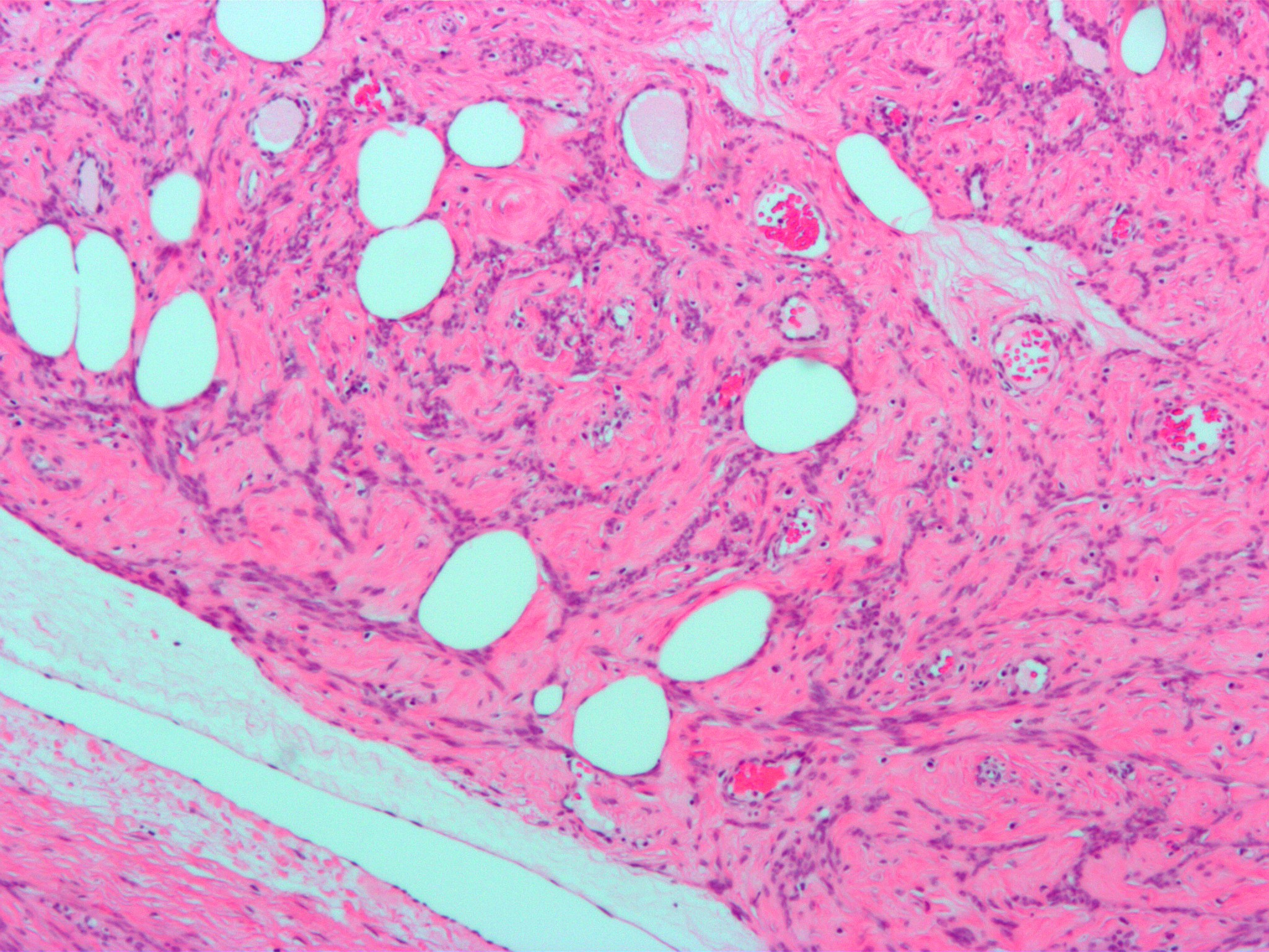 Micrograph of a lipoleiomyoma. H&E stain. Micrograph of a uterine lipoleiomyoma. H&E stain. Lipoleiomyomas are a type of leiomyoma and commonly known as fibroids. Gross appearance: Sharply circumscribed. Gray-white. Whorled appearance. Microscopic appearance: Well-demarcated border. Spindle cells in a whorled arrangement. Few mitoses. See also Low magnification micrograph of a lipoleiomyoma